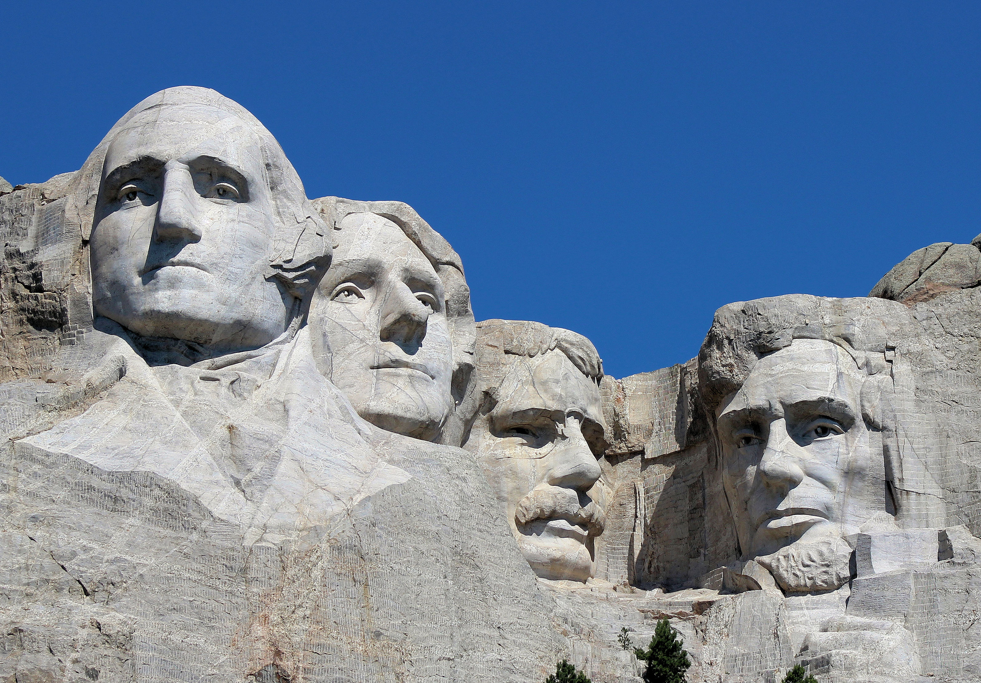 Closeup of Mount Rushmore sculptures - taken in July 2017